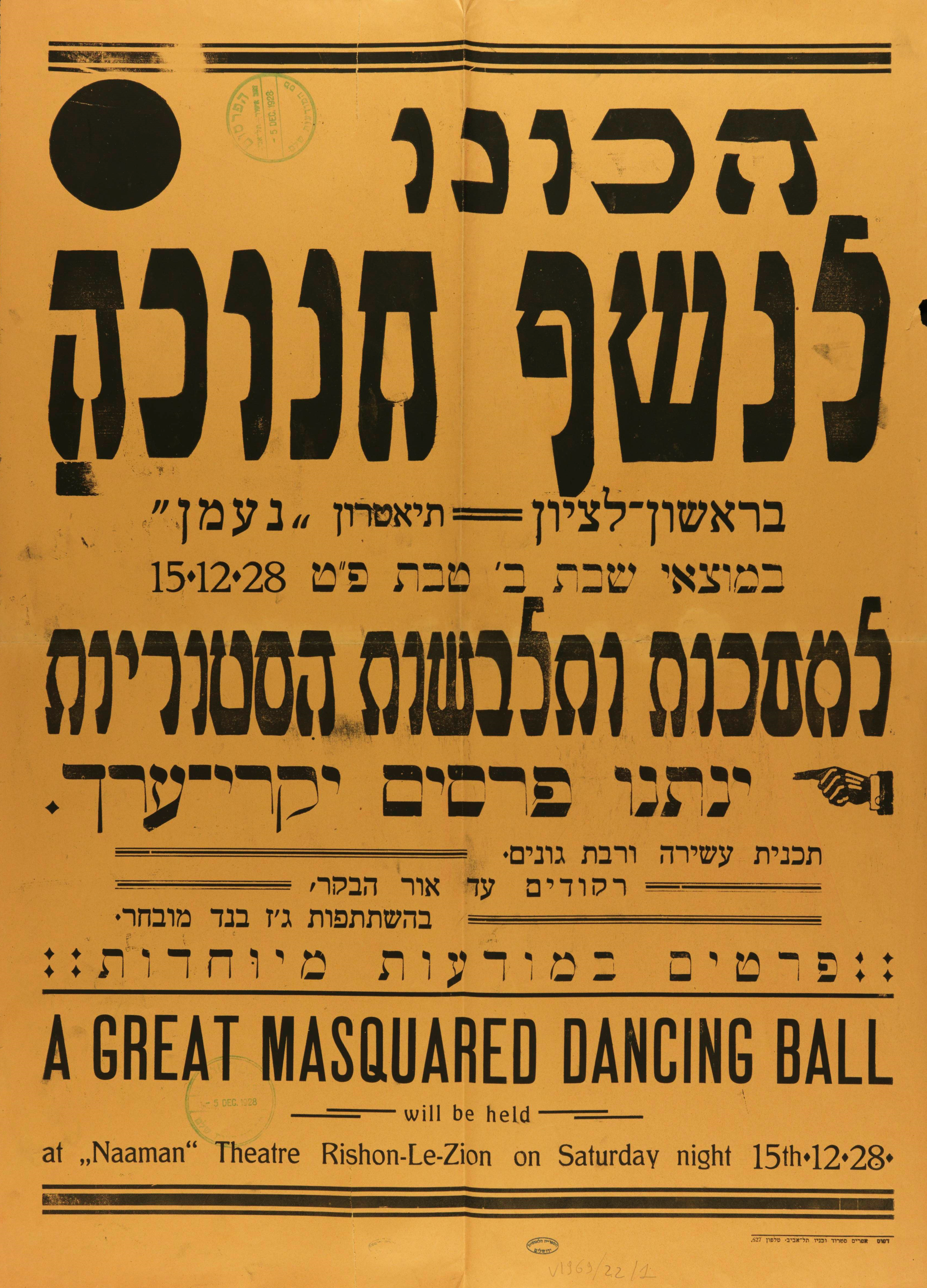 Hanukkah Ball Poster - 1928